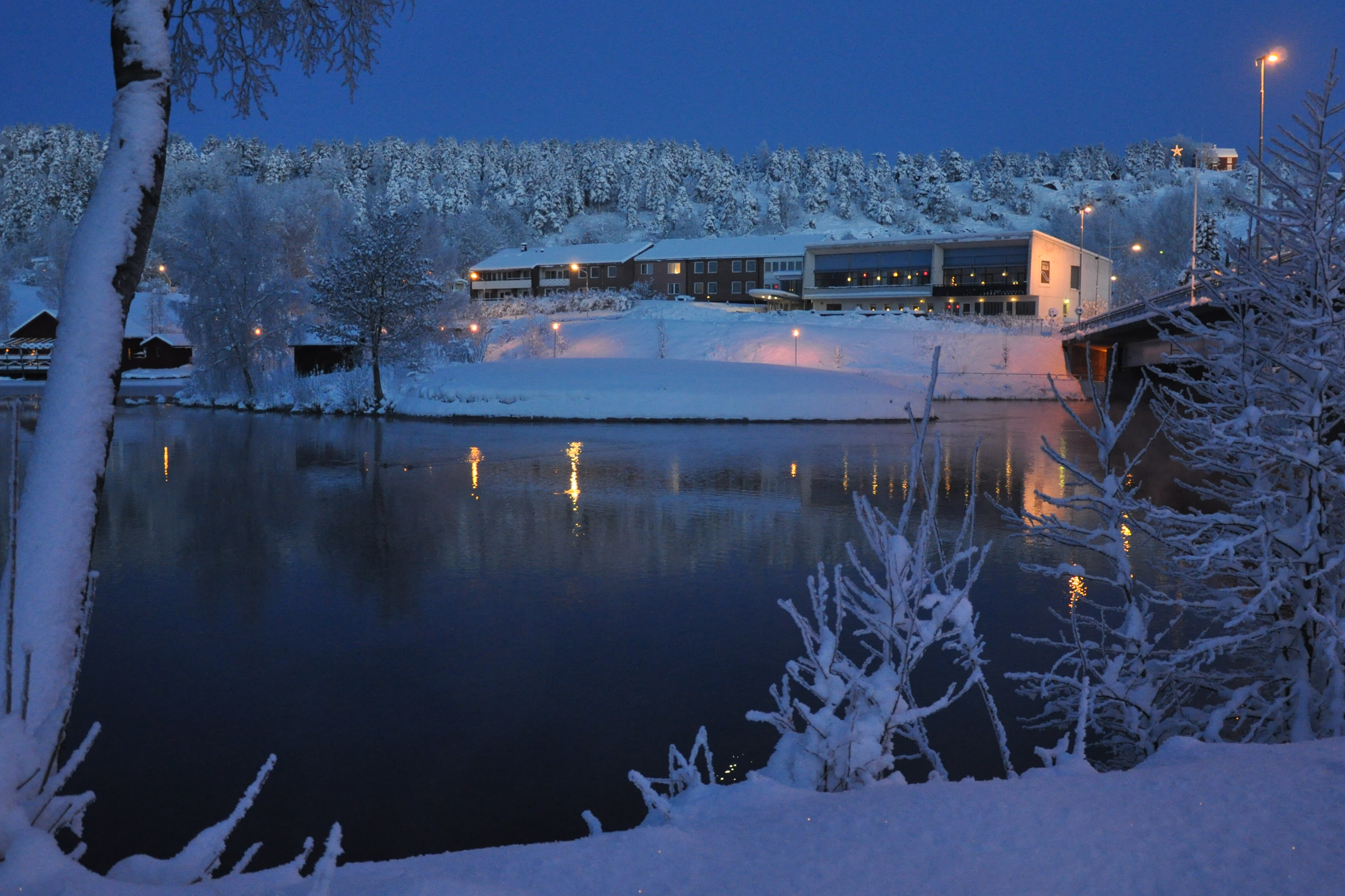 Hotell Dalia, Bengtsfors, Sweden